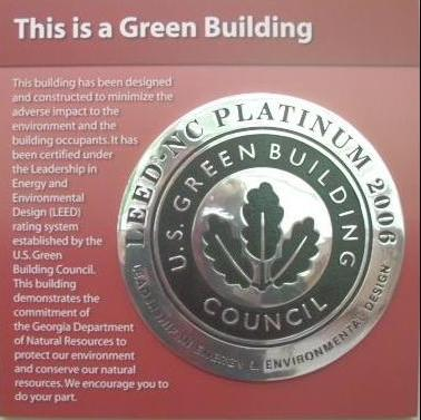 From the visitor center-museum Sweetwater Creek State Park